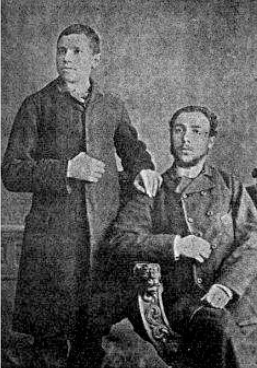 Mihail Georgiev Zimbilev and Ivan Georfgiev Zimbilev